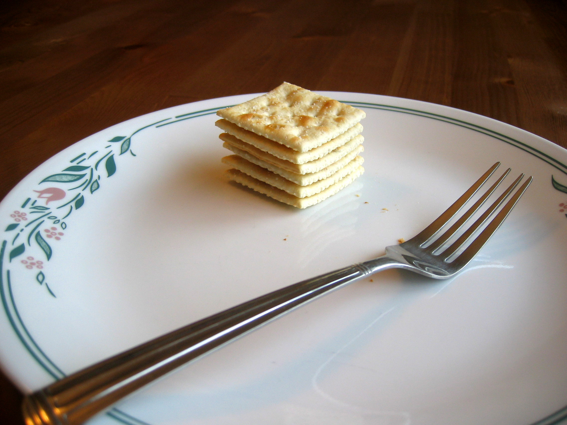 Six saltines and a fork on a large plate